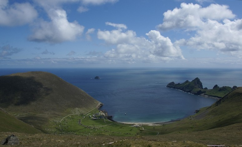 Village Bay, Hirta, Saint Kilda, Scotland